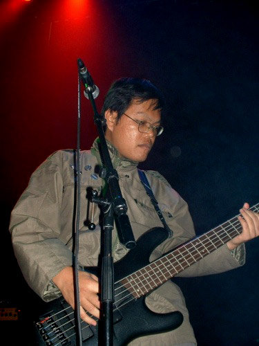 Indonesian bassist in concert, wearing beige vinyl uniform.